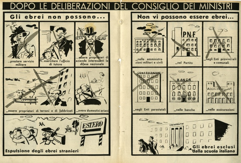 Antisemitic cartoon published in "La Difesa della Razza" on occassion of the antisemitic law "Measures for the defence of the Italian race". Translation of top: "Pursuant to the deliberations of the Council of Ministers."Translation of left panel: "Jews cannot provide military service. Jews cannot exercise the office of guardian. Jews cannot own national defense interests. Jews cannot own land and buildings. Jews may not have Aryan domestics in their households. Expulsion of foreign Jews." Translation of right panel: "There can be no Jews in military and civilian administration. There can be no Jews in the Party. There can be no Jews in the provincial and communal bodies. There can be no Jews in Parastatal Bodies. There can be no Jews in the banks. There can be no Jews in the insurance company. Jews are excluded from the Italian school."